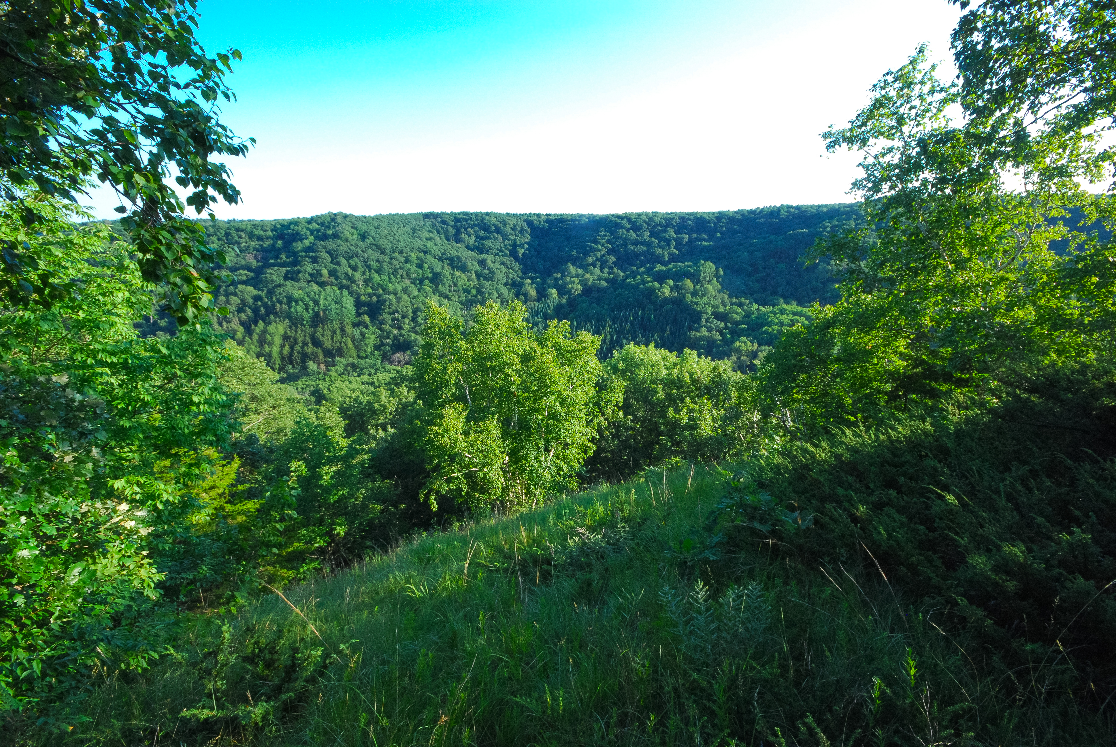 Northeast Coulee Oak Woodland Wisconsin State Natural Area #597 Coulee Experimental Forest La Crosse County